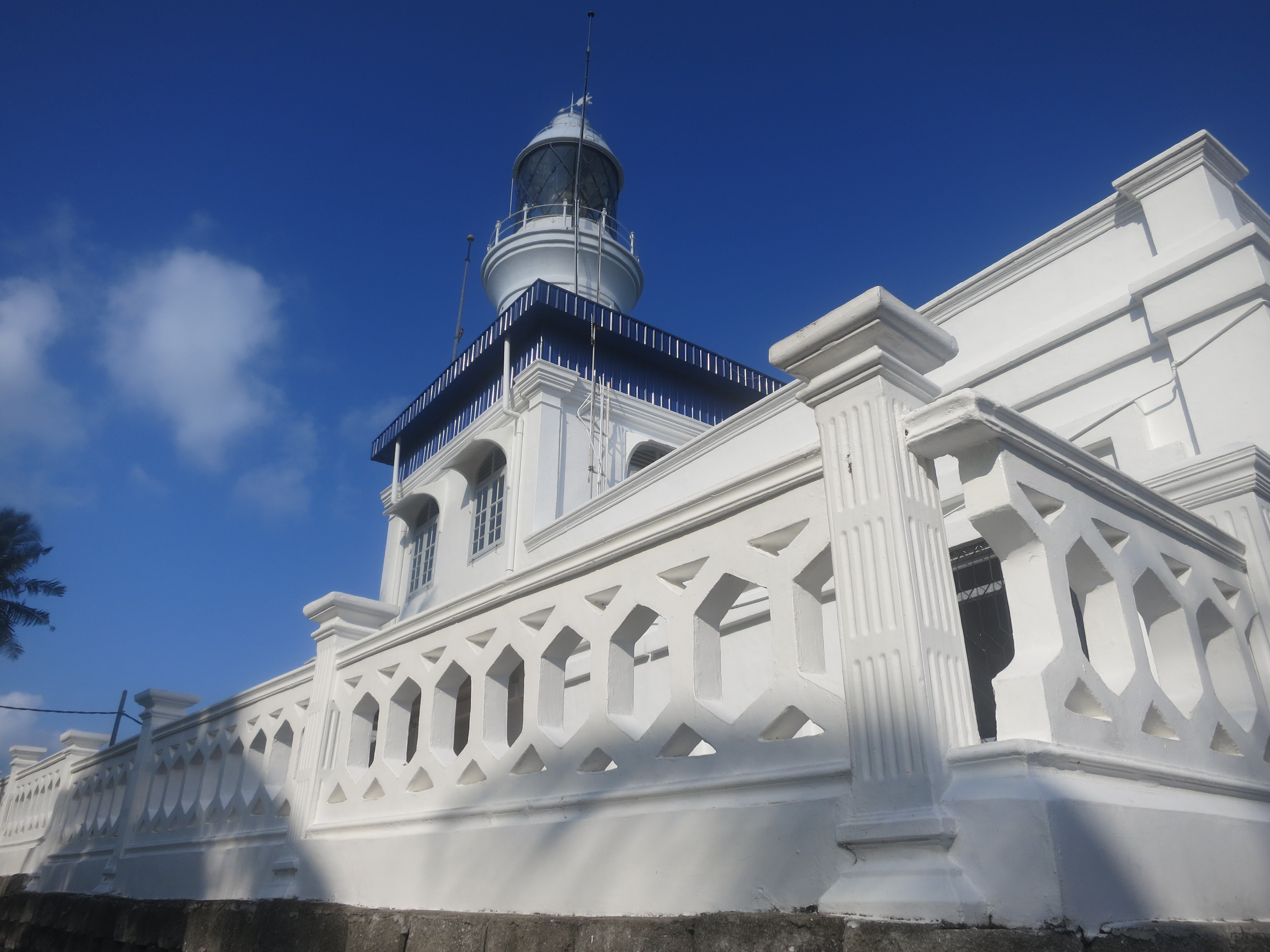 Cape Rachado Lighthouse